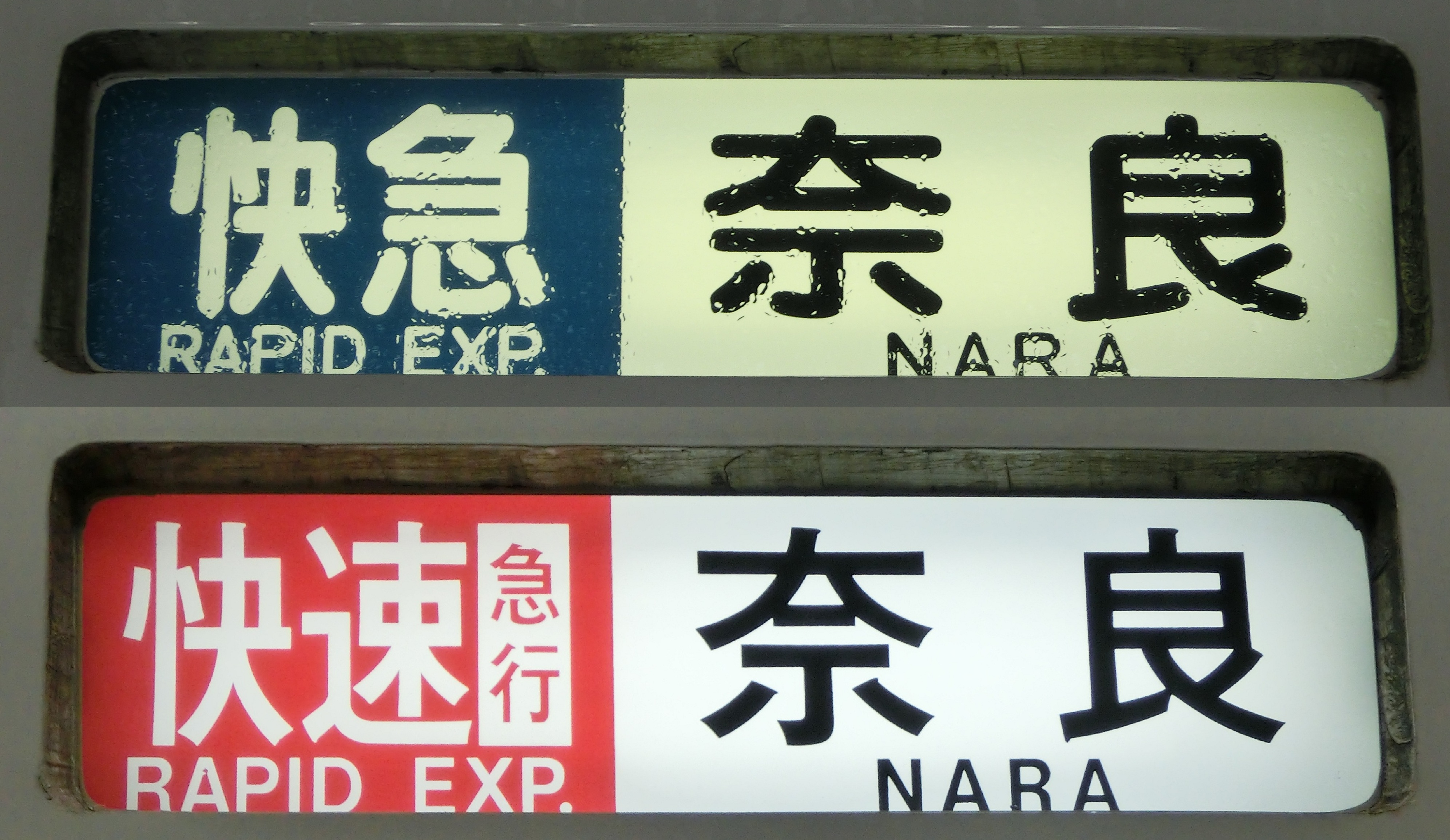 Hanshin and kintetsu's Rapid Express Rollsign.